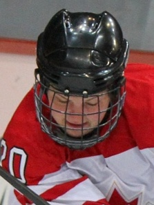 Jennifer Wakefield in IIHF World Women Championship 2011. Gold Medal Game USA - Canada 3-2 OT.